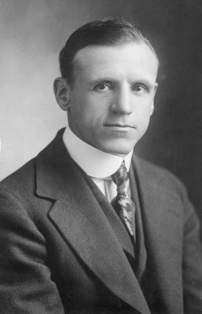 Zora Goodwin Clevenger circa 1910